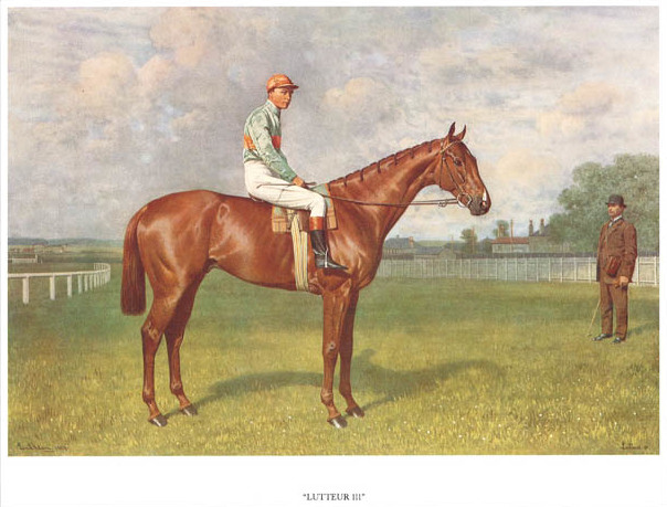 Racehorses No.05: Caricature of Lutteur III; winner of the 1909 Grand National. Caption reads: "Lutteur III"